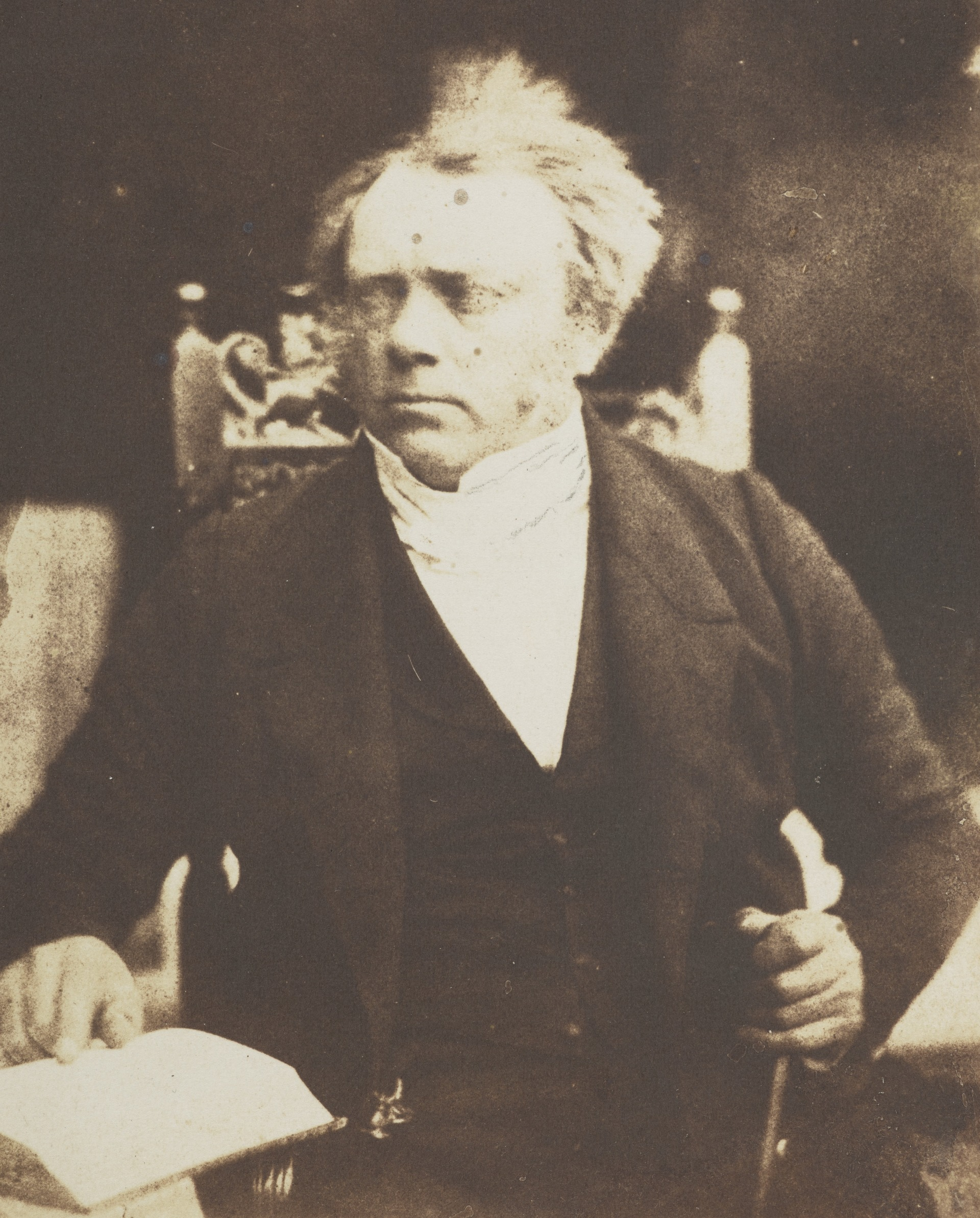 Rev. Thomas McCrie, 1797 - 1875. Of London; United Secession and later Free Church minister; church historian